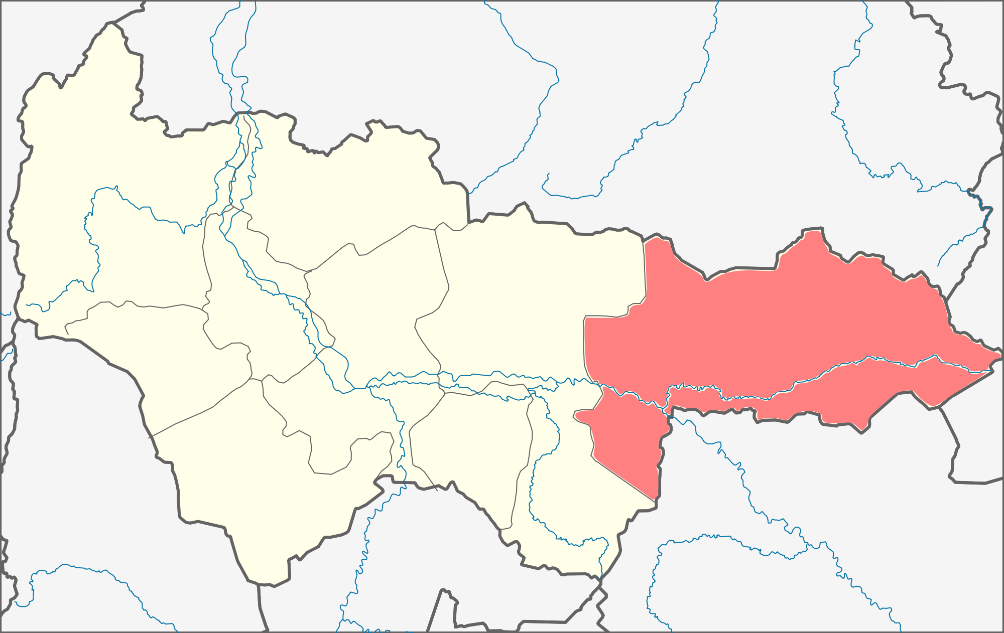 Location of Nizhnevartovsky District in the Khanty–Mansi Autonomous Okrug, Russia. This is a derivative work, based on